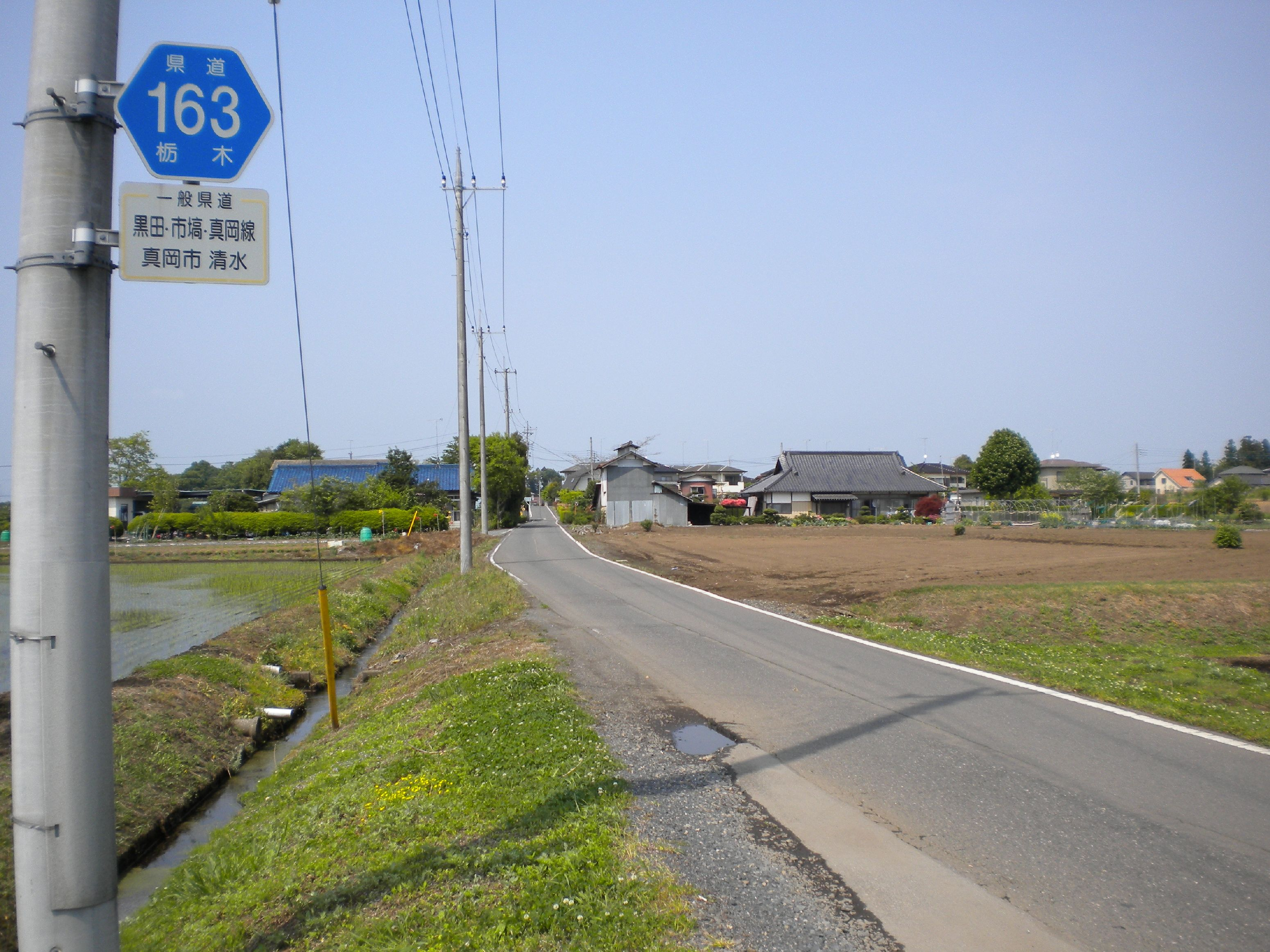 The Tochigi Prefectural Road Route 163 in Shimizu, Moka City